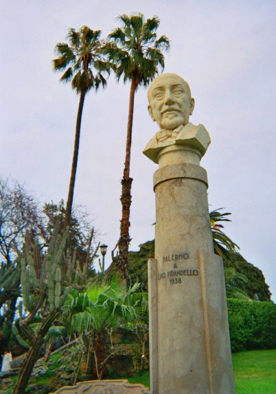 Bust of Luigi Pirandello in a public park (Giardino Inglese) in Palermo, Sicily.